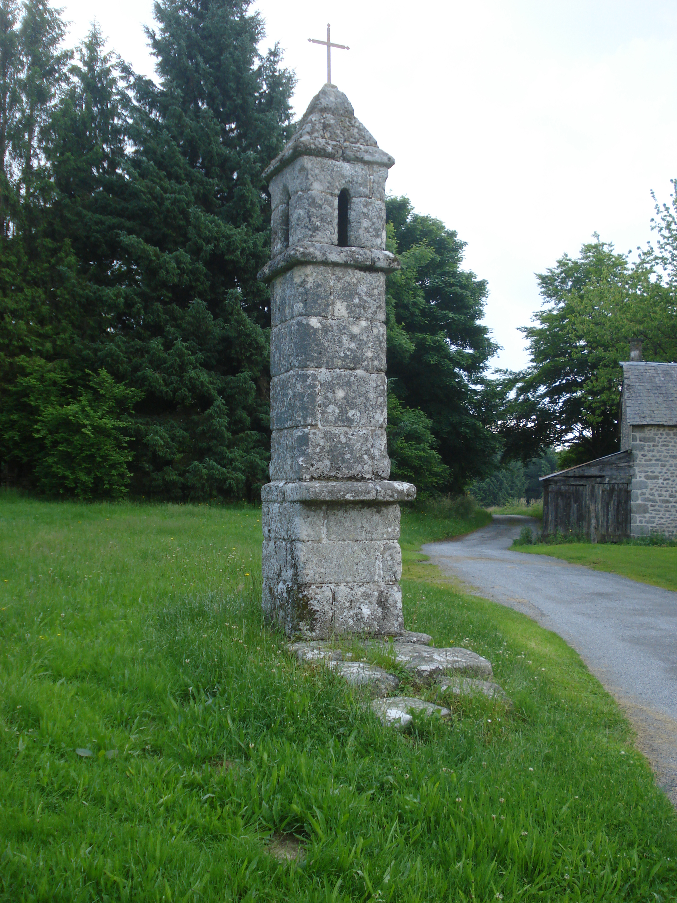 Saint-Goussaud (Creuse, fr) "lanterne des morts"